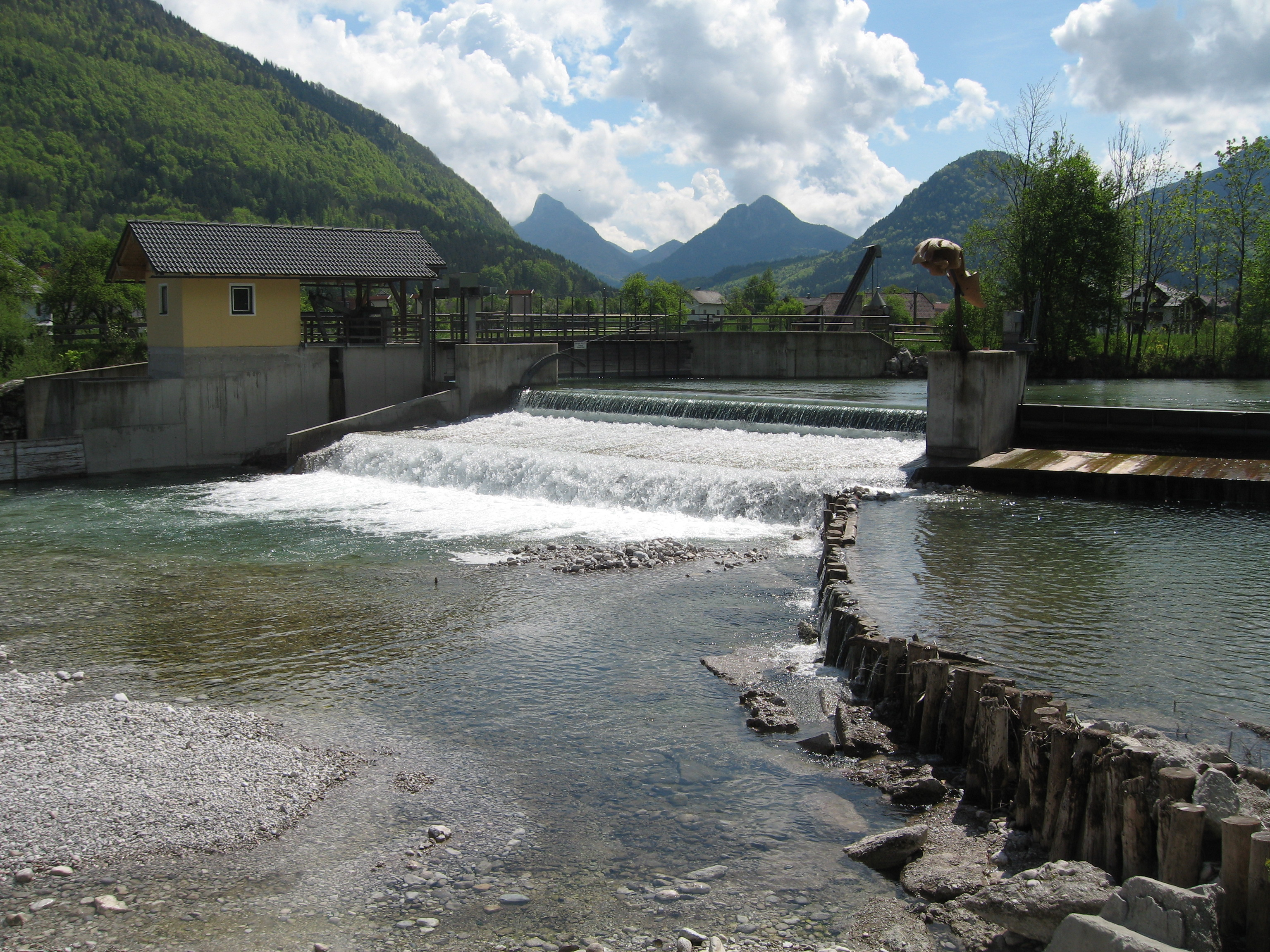 Smallhydropowerstation "Redlmuehle II" est. 2005 40 kW